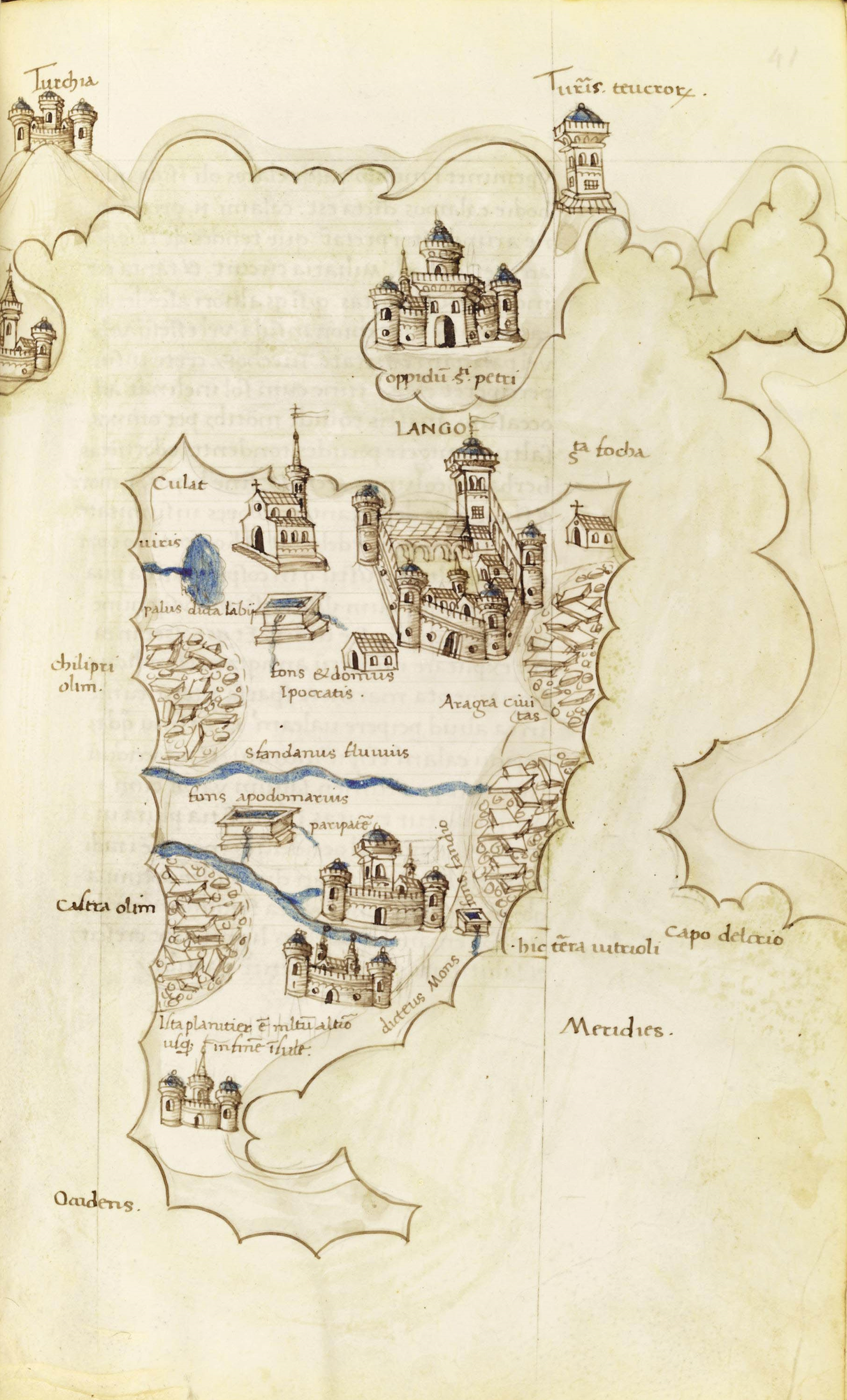 BUONDELMONTI, Cristoforo (Florence c. 1385-not before 1430 probably Greece). Liber Insularum Archipelagi. ILLUMINATED MANUSCRIPT ON VELLUM, in Latin. [Italy, perhaps Florence, c. 1450].